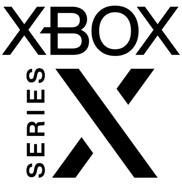 Logo for the Xbox Series X video game system